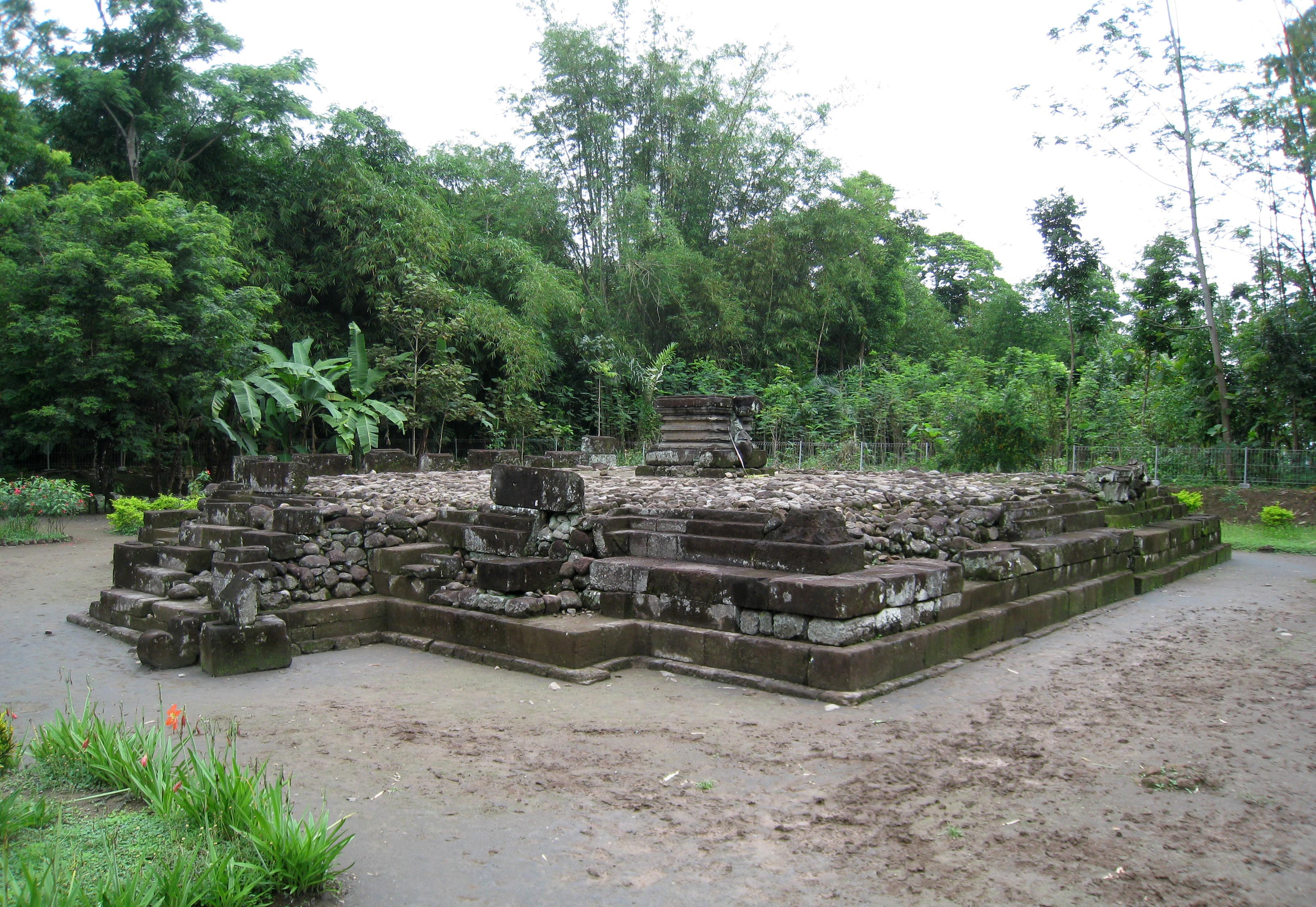 The ruin of the main temple of Gunung Wukir (Canggal). Only the base part and yoni remain, the body and roof parts are missing. There are three perwara or smaller complementary temples in front of the main temple. The temple is located on Gunung Wukir Hill, Canggal hamlet, Kadiluwih village, Salam, Magelang Regency, Central Java, Indonesia.